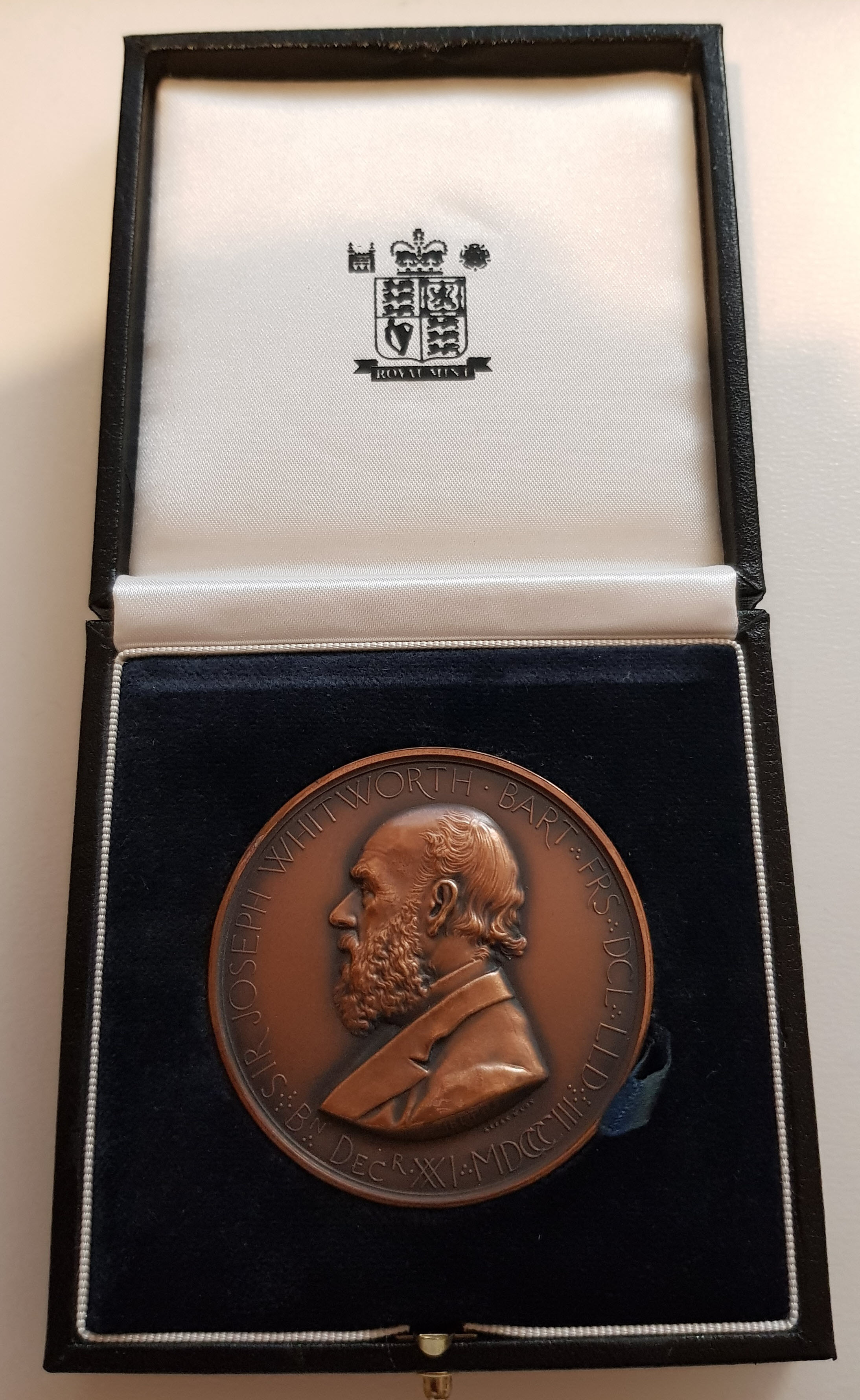 Whitworth Scholarship medal presented on completion of a successful Scholarship